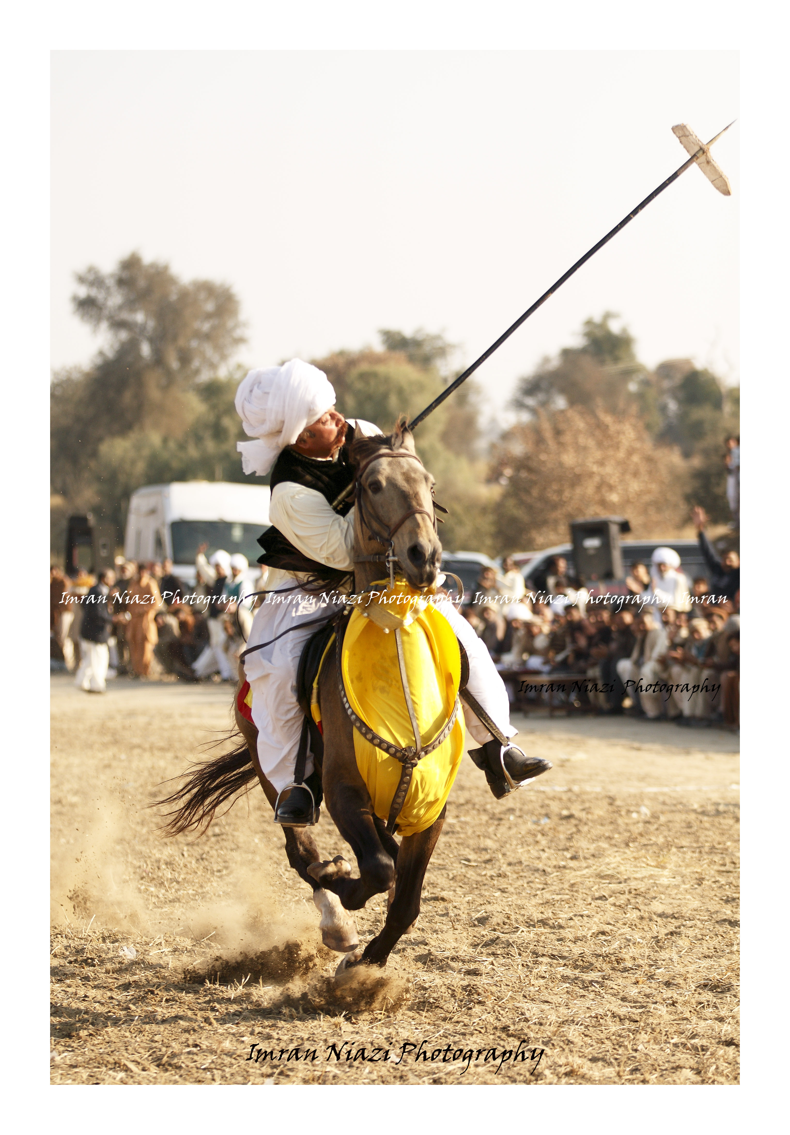 A traditional sport in rural Pakistan. The rider is Malik Atta Muhammad Khan.